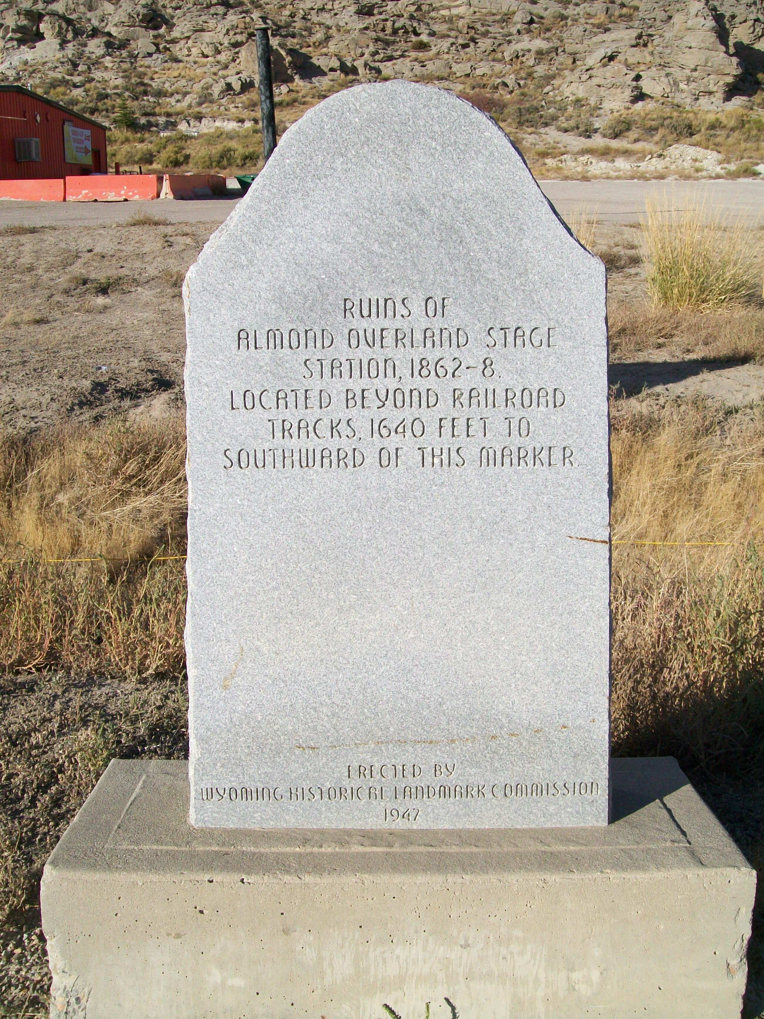 A photo of the monument erected at the Almond Stage Station in Point of Rocks, WY